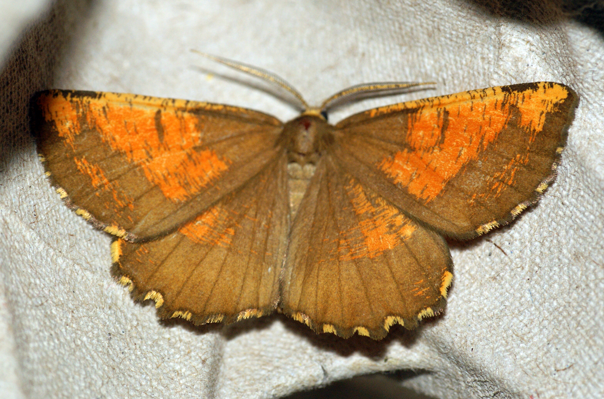 Male - Form f.corylaria.